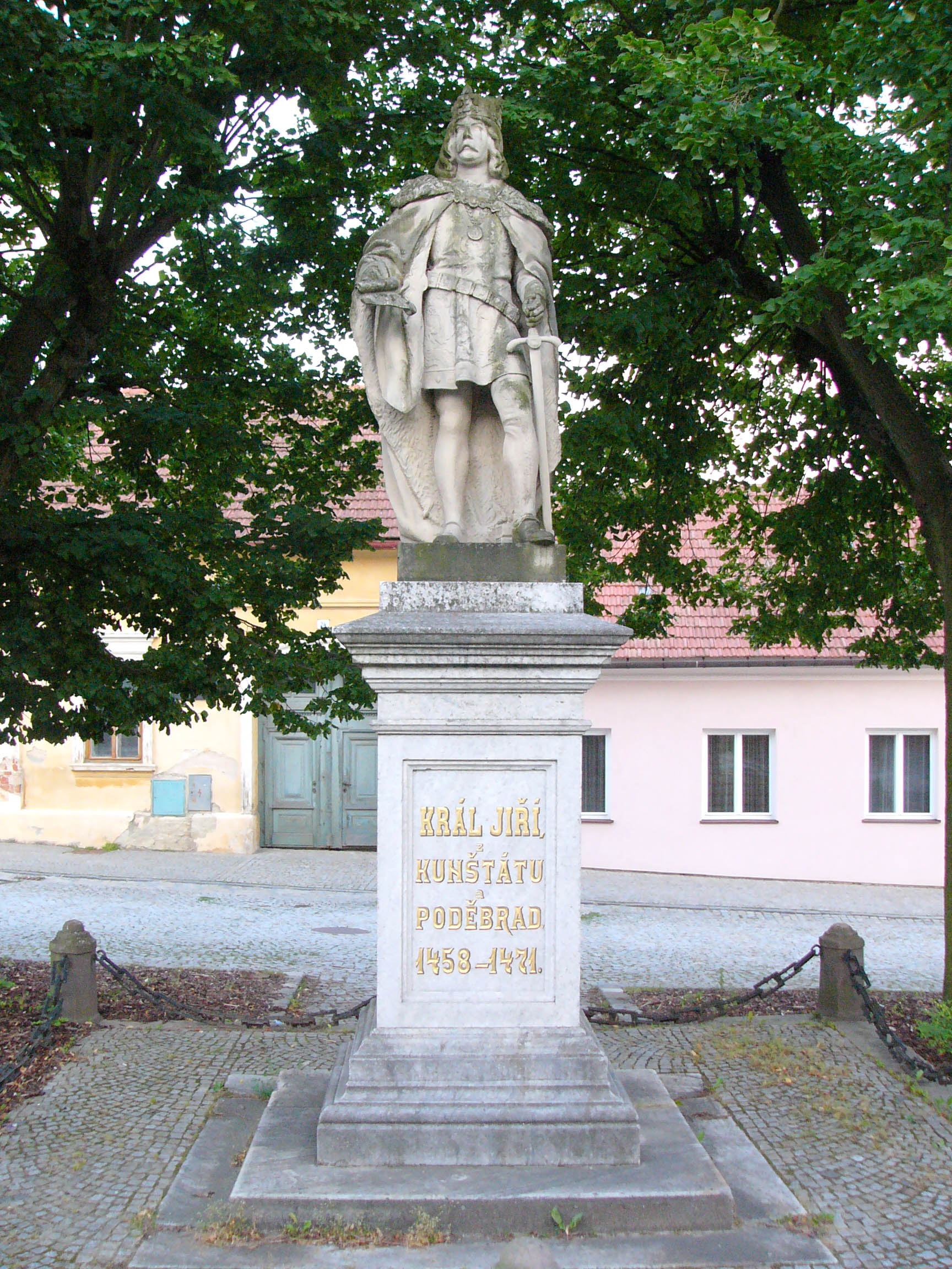 George of Podebrady - statue in Kunštát (Czech Republic).